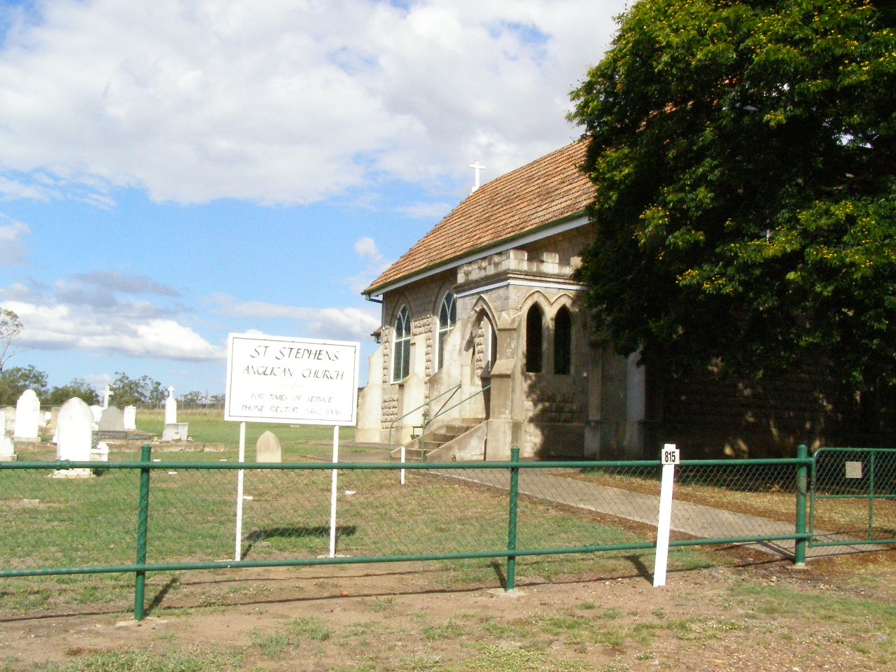 Ma Ma Creek Church, entrance view, 2006